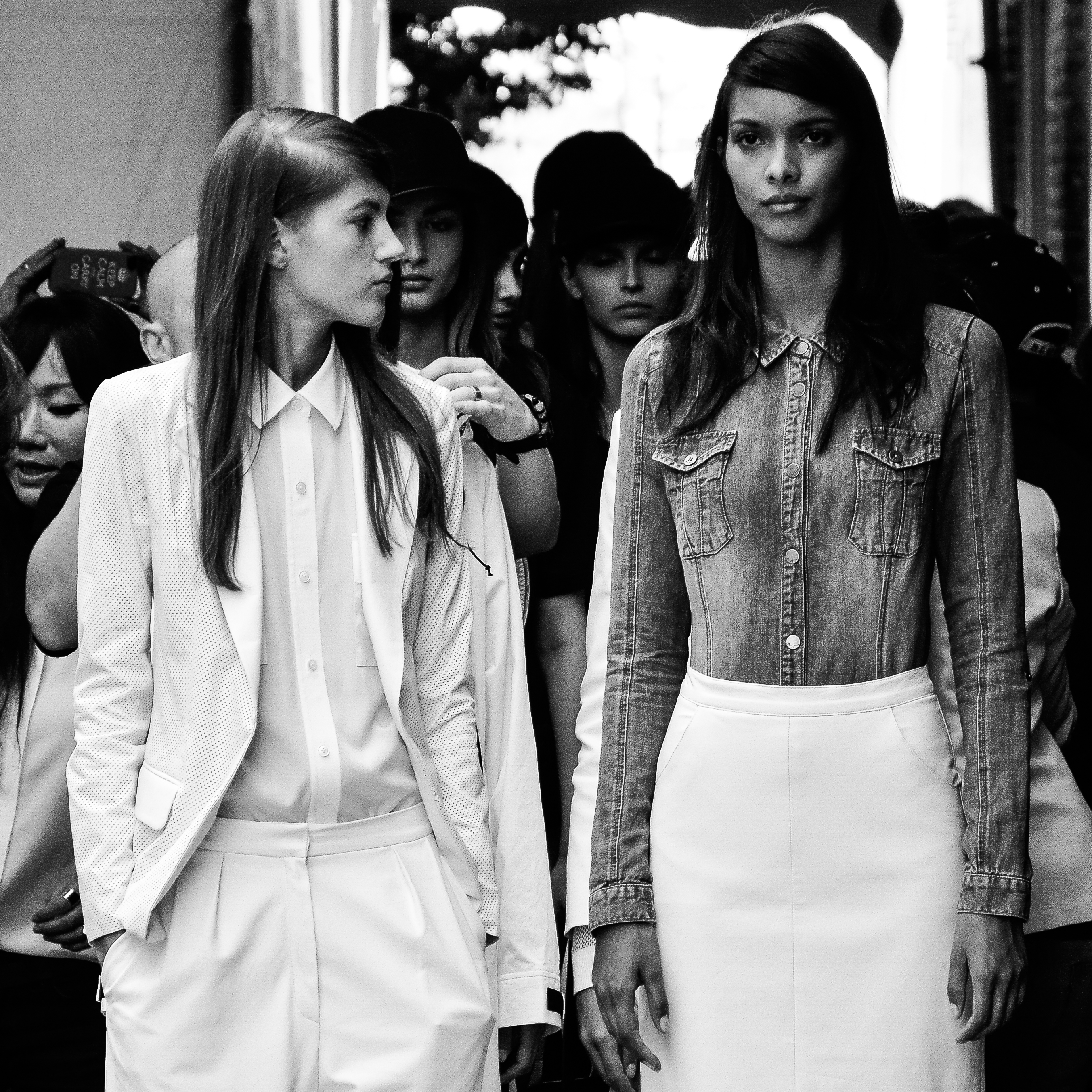 Brazilian model Lais Ribeiro on the right, russian model Valeria Kaufman on the left.